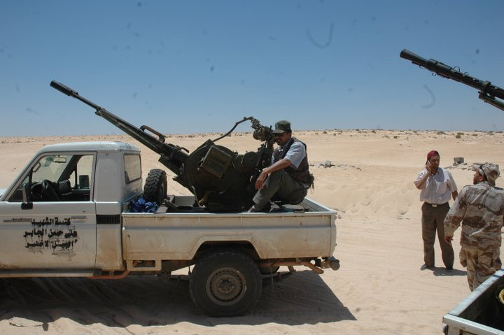 Battalion Ali Hassan al-Jaber - Jabal al Akhdar - Bayda - on the eastern front during the battles against the forces of Gaddafi.